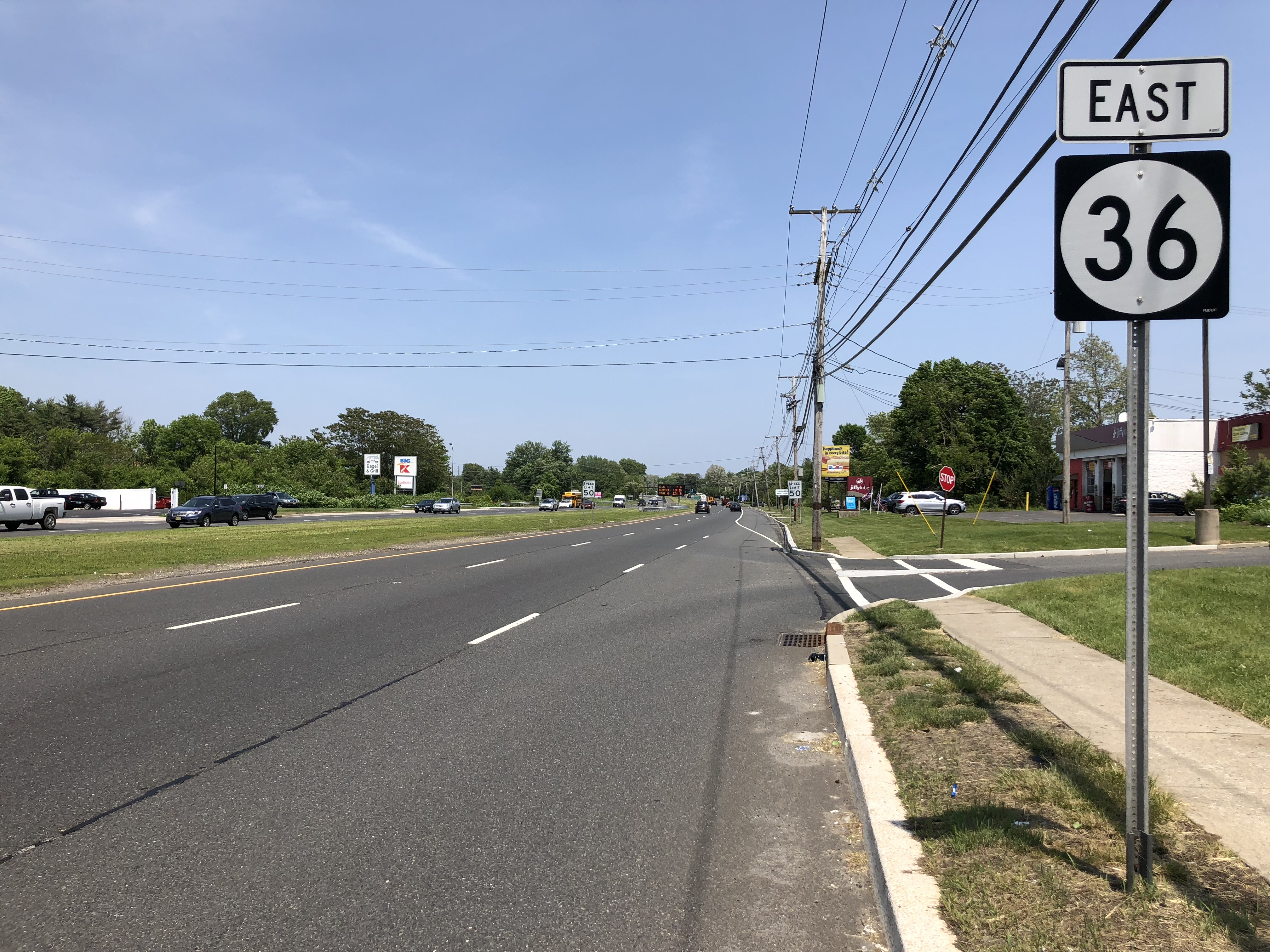 View east along New Jersey State Route 36 at New Jersey State Route 71 (Monmouth Road) in West Long Branch, Monmouth County, New Jersey